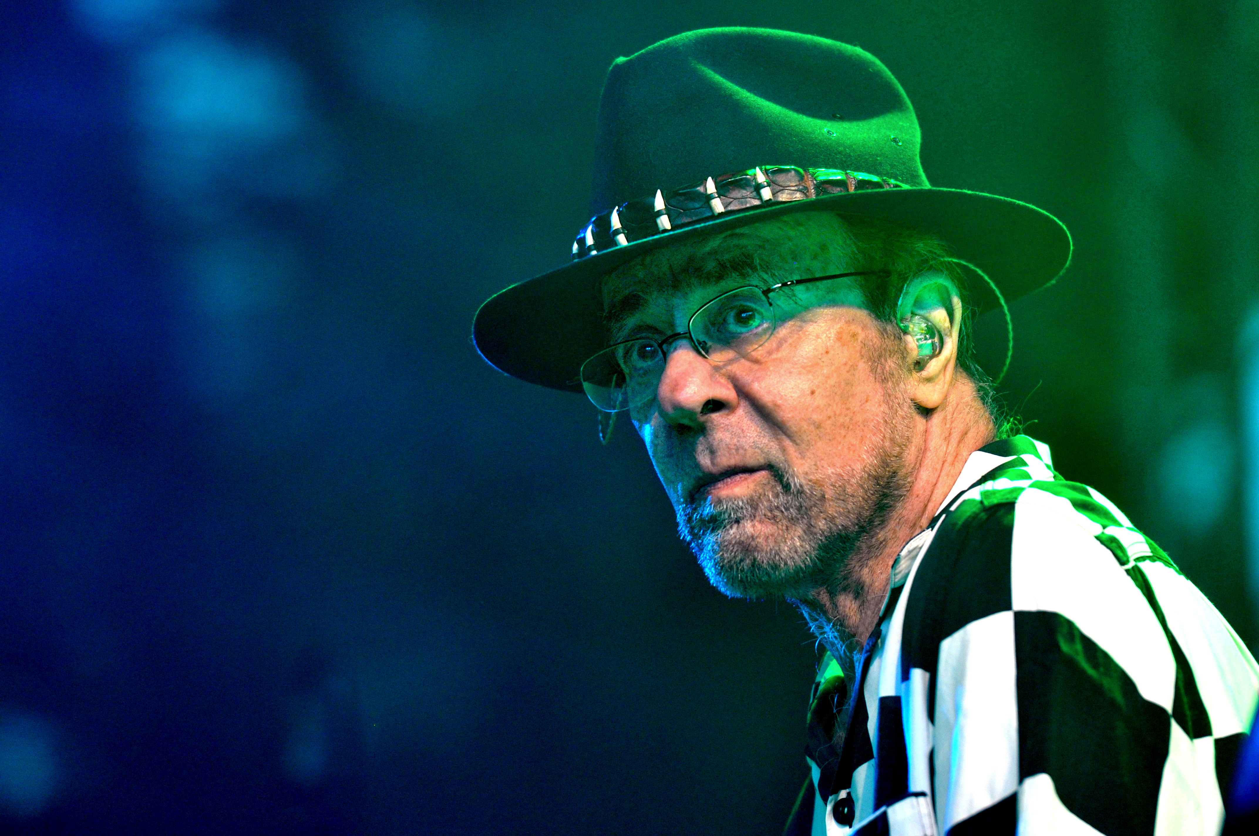 Manfred Mann's Earth Band (ZAF/GBR) appearance at the 2016 blacksheep festival at Bonfeld castle, Bad Rappenau, Baden-Wuerttemberg, Germany Festivalsommer This photo was created with the support of donations to Wikimedia Deutschland in the context of the CPB project "Festival Summer".